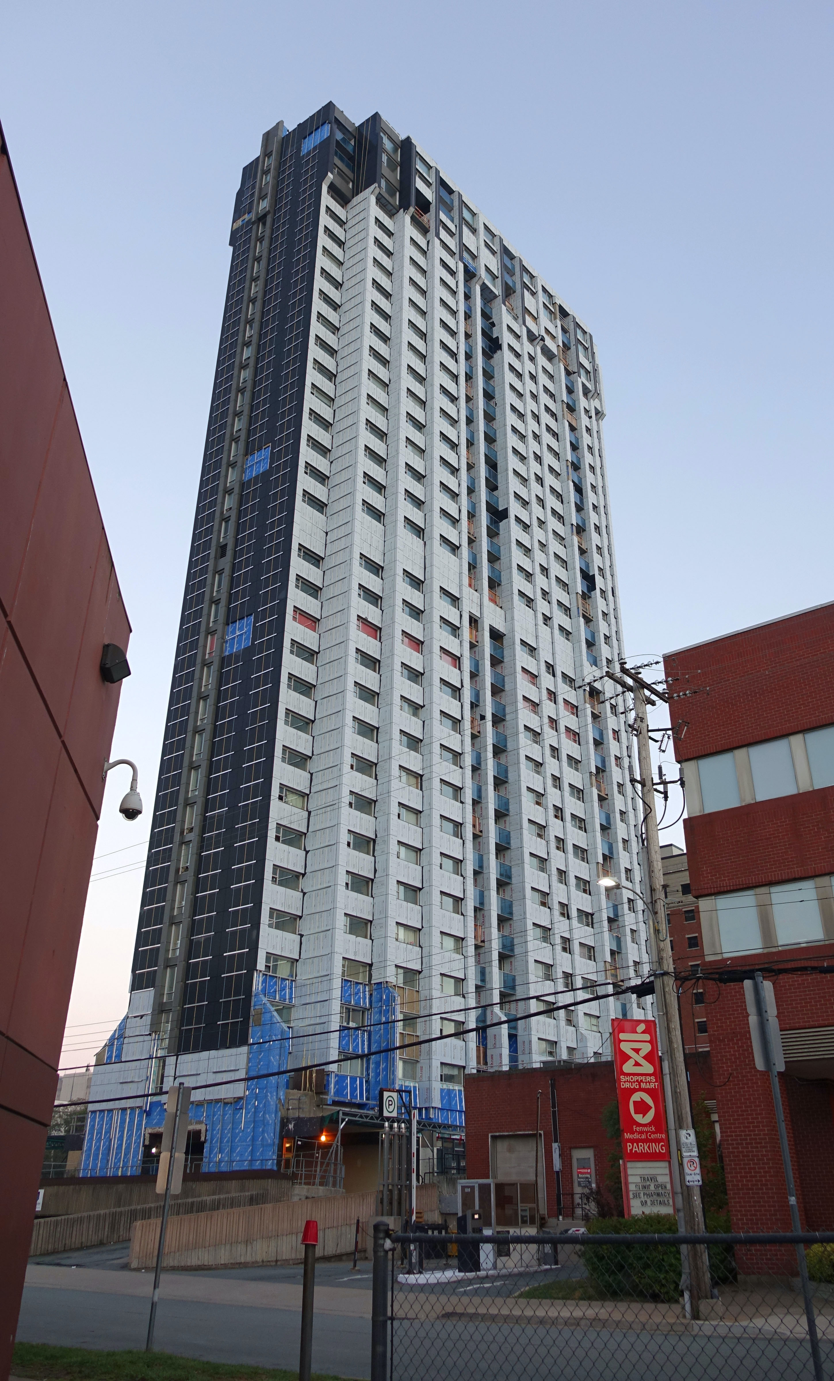 This photo taken on September 15, 2018 shows Fenwick Tower, a residential apartment building located at 5599 Fenwick Street in Halifax, Nova Scotia, Canada, during renovations. Completed in 1971, it is in 2018 the tallest building in Atlantic Canada.